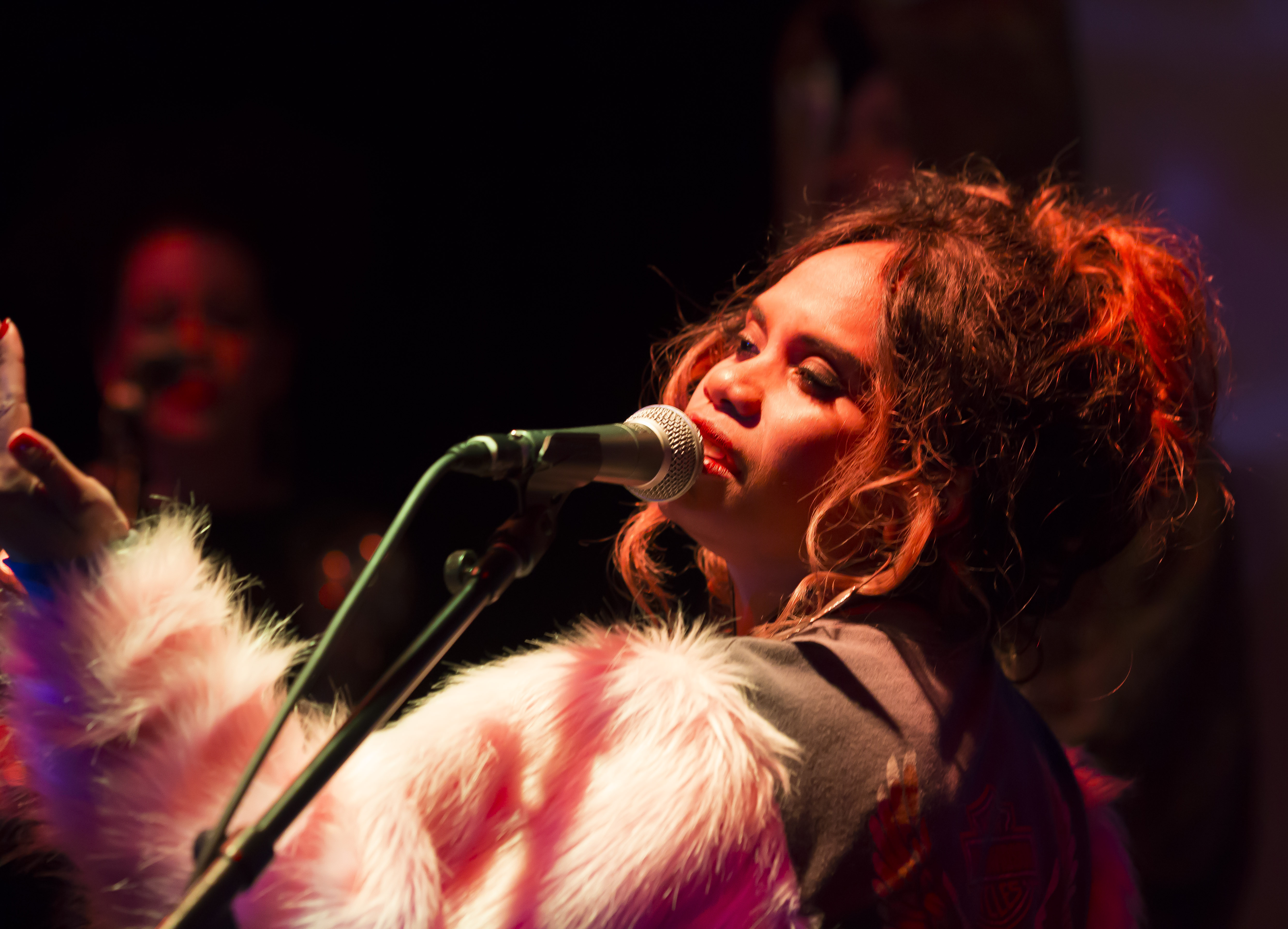 Ngaire Joseph (aka Ngaiire) Newtown Social Club - 6th August 2015